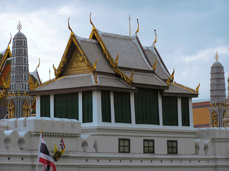 Chaichumpol Residential hall, Grand Palace, Bangkok, Thailand